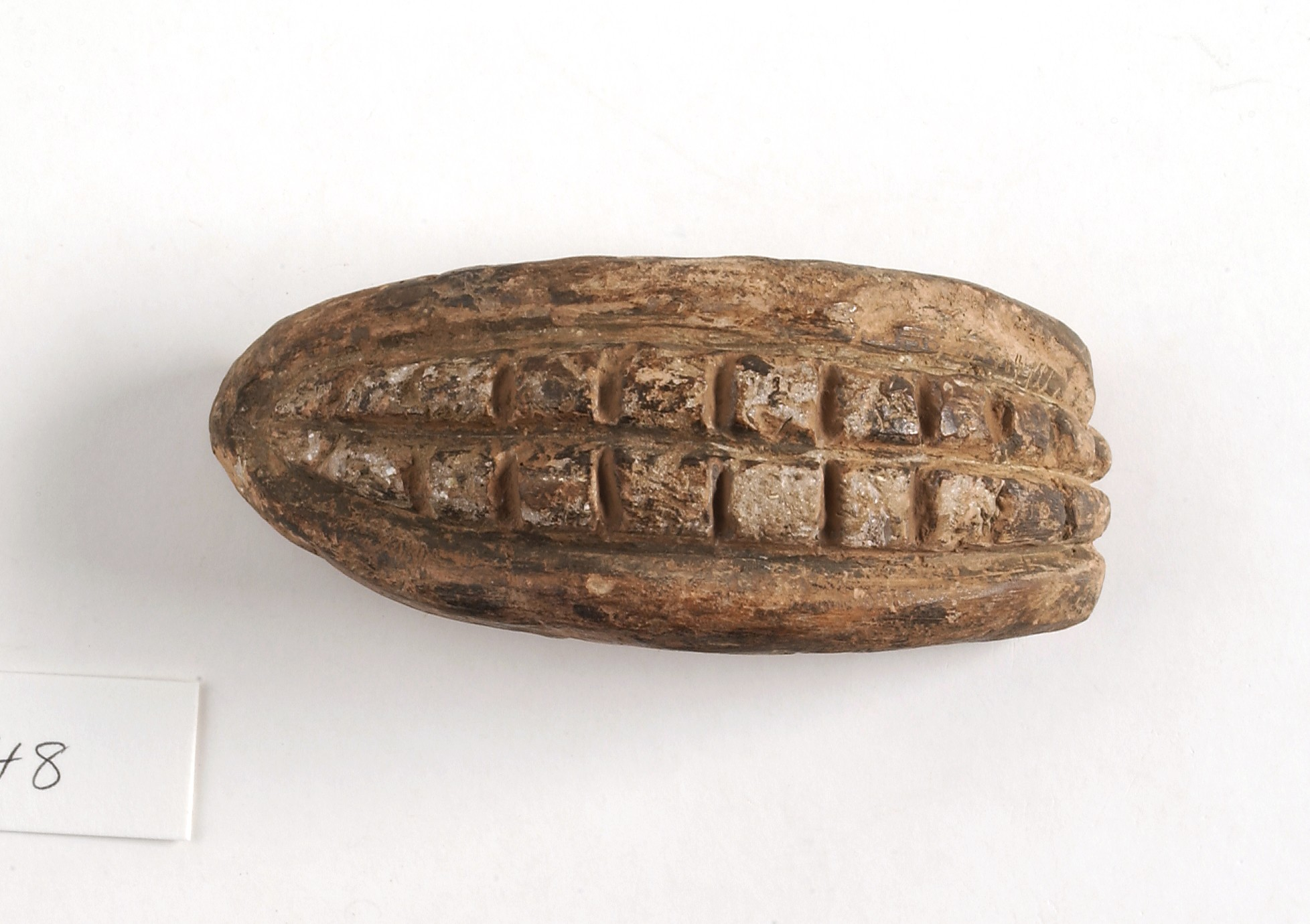 A clay-baked teeth. Roman votive offering Wellcome Images Keywords: Roman Empire; Offering; Terracotta; Antiquity; Votives; Shrine; Sculpture